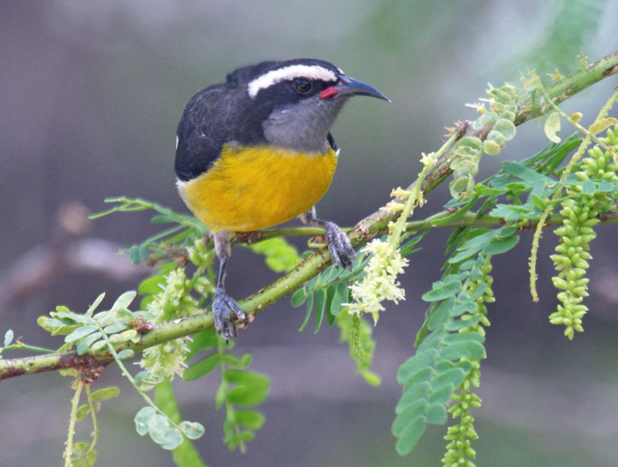 Bananaquit (Coereba flaveola) in Puerto Rico